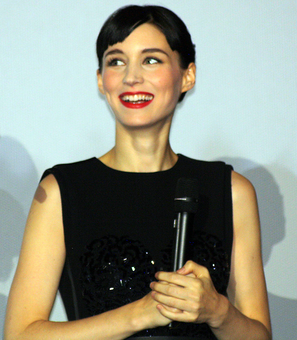 Rooney Mara at the Paris premiere of film The Girl with the Dragon Tattoo 2012.